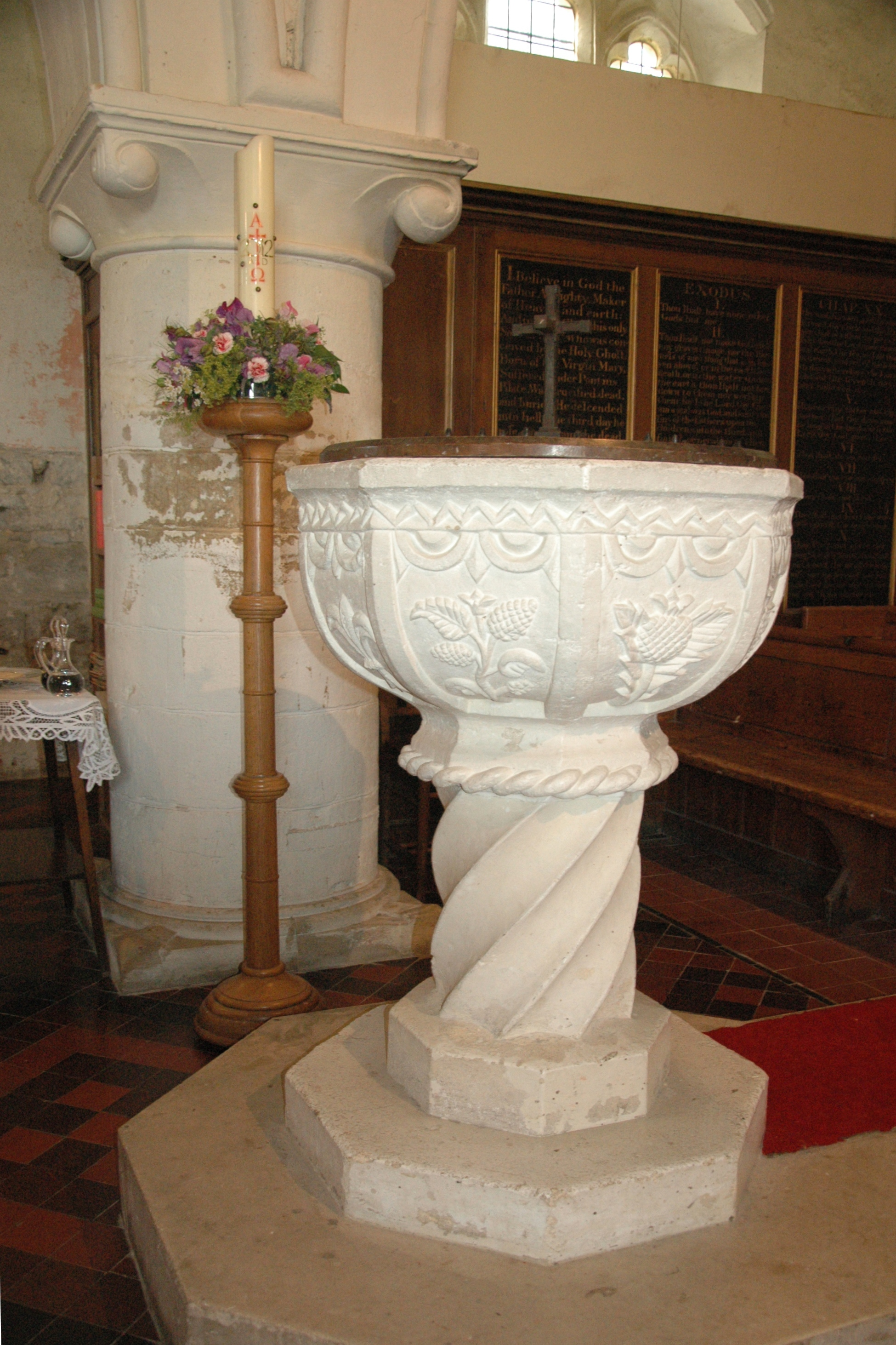 Church of England parish church of St Mary the Virgin, Chalgrove, Oxfordshire: baptismal font, 17th century